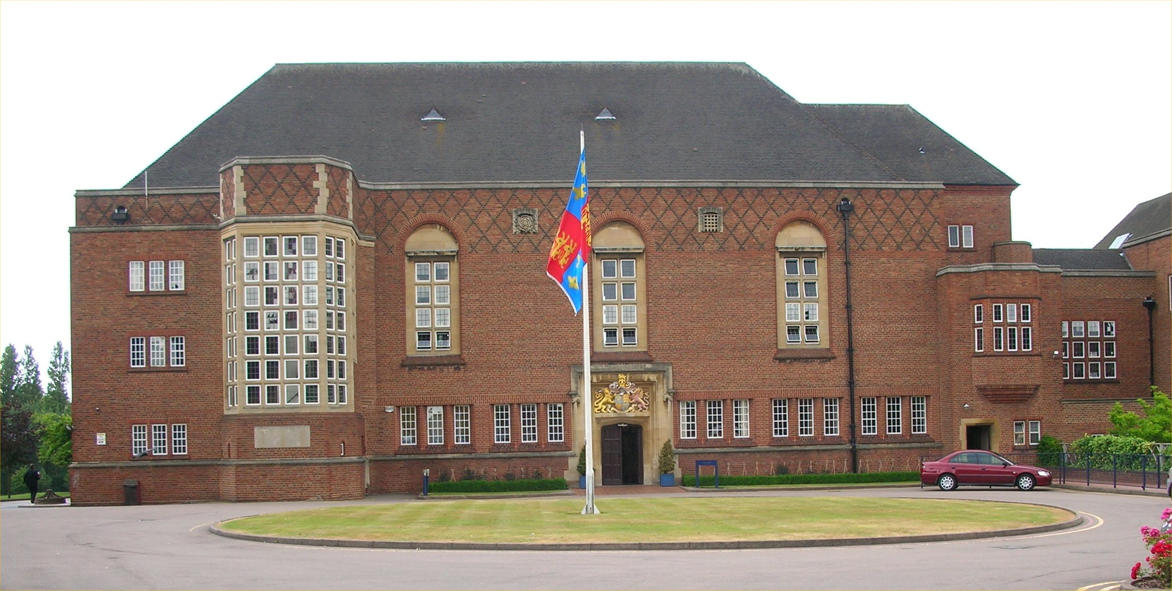 King Edward's School, Birmingham, England. By architect Holland W. Hobbiss. Photographed by me, 8 July 2006. Oosoom